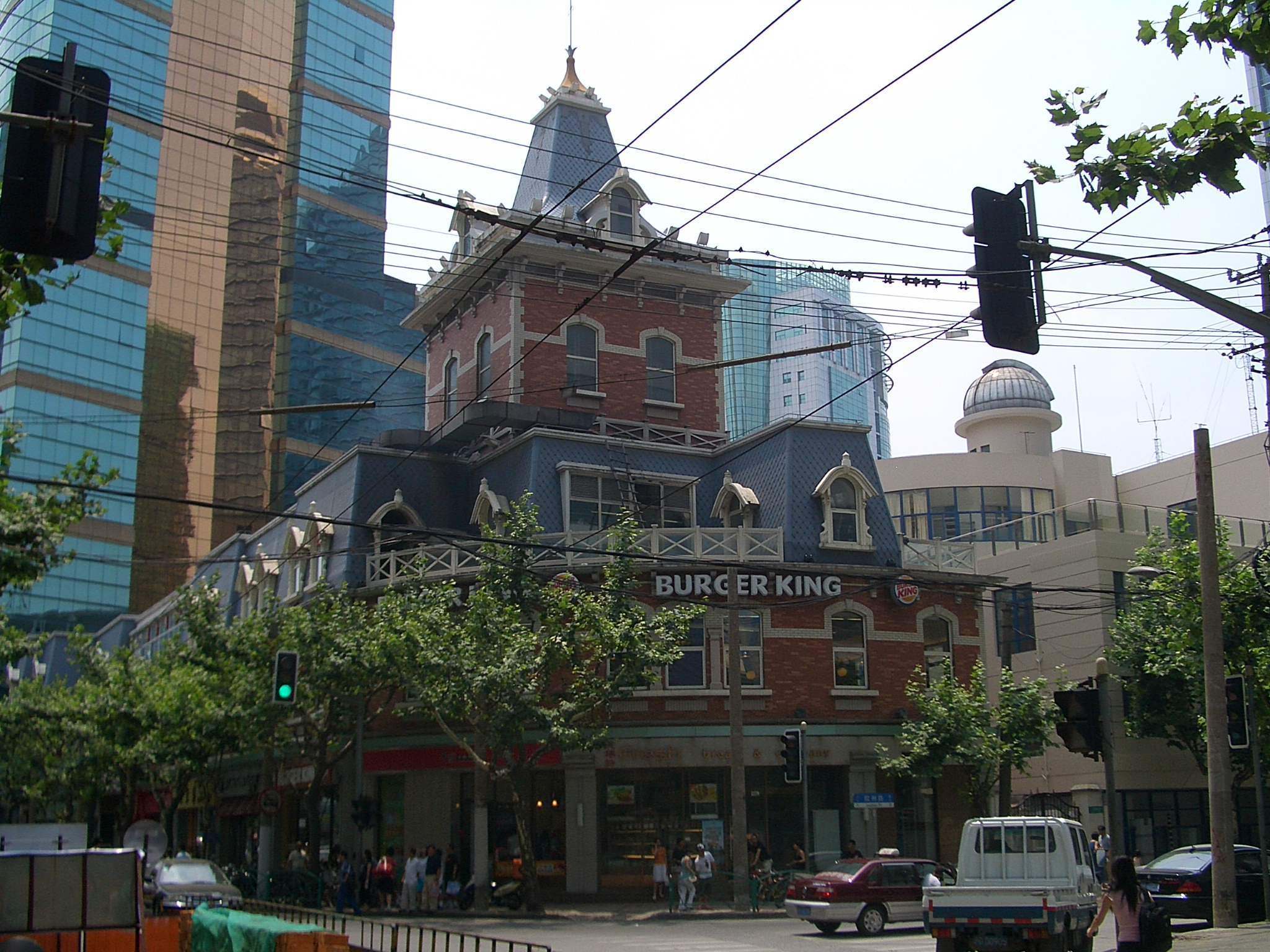 An older building in Shanghai, just north of Jing'an Temple and Jing'an Subway station, now with a Burger King restaurant